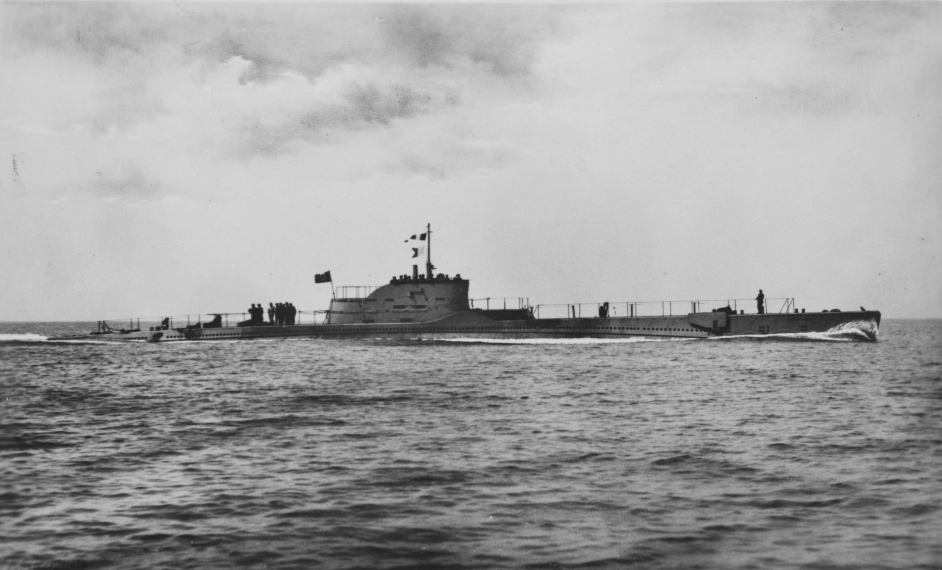 The Italian submarine Vettore Pisani on the surface